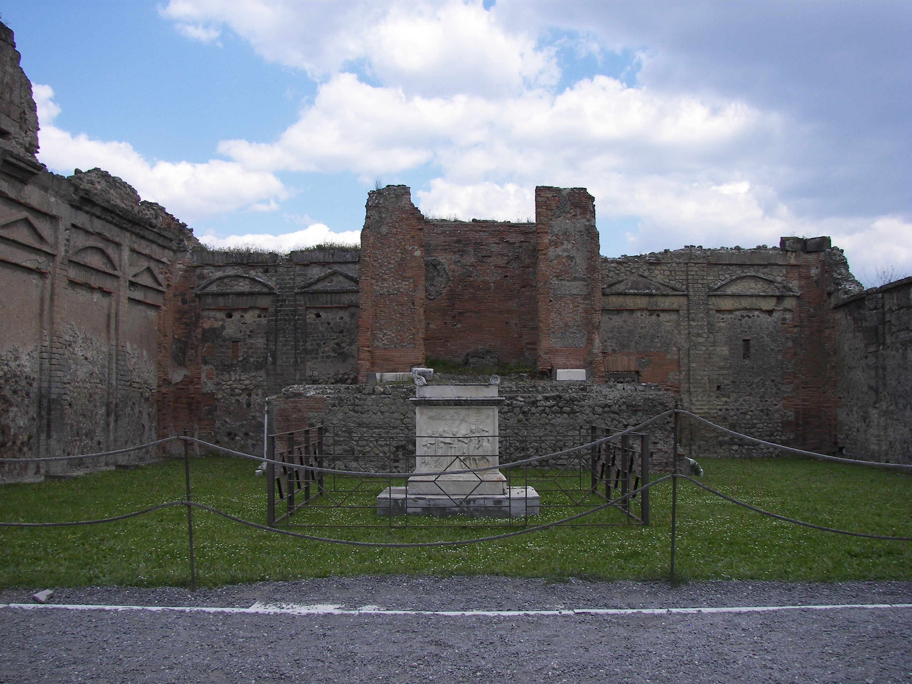 Temple of Vespasian in the main forum in Pompeii.